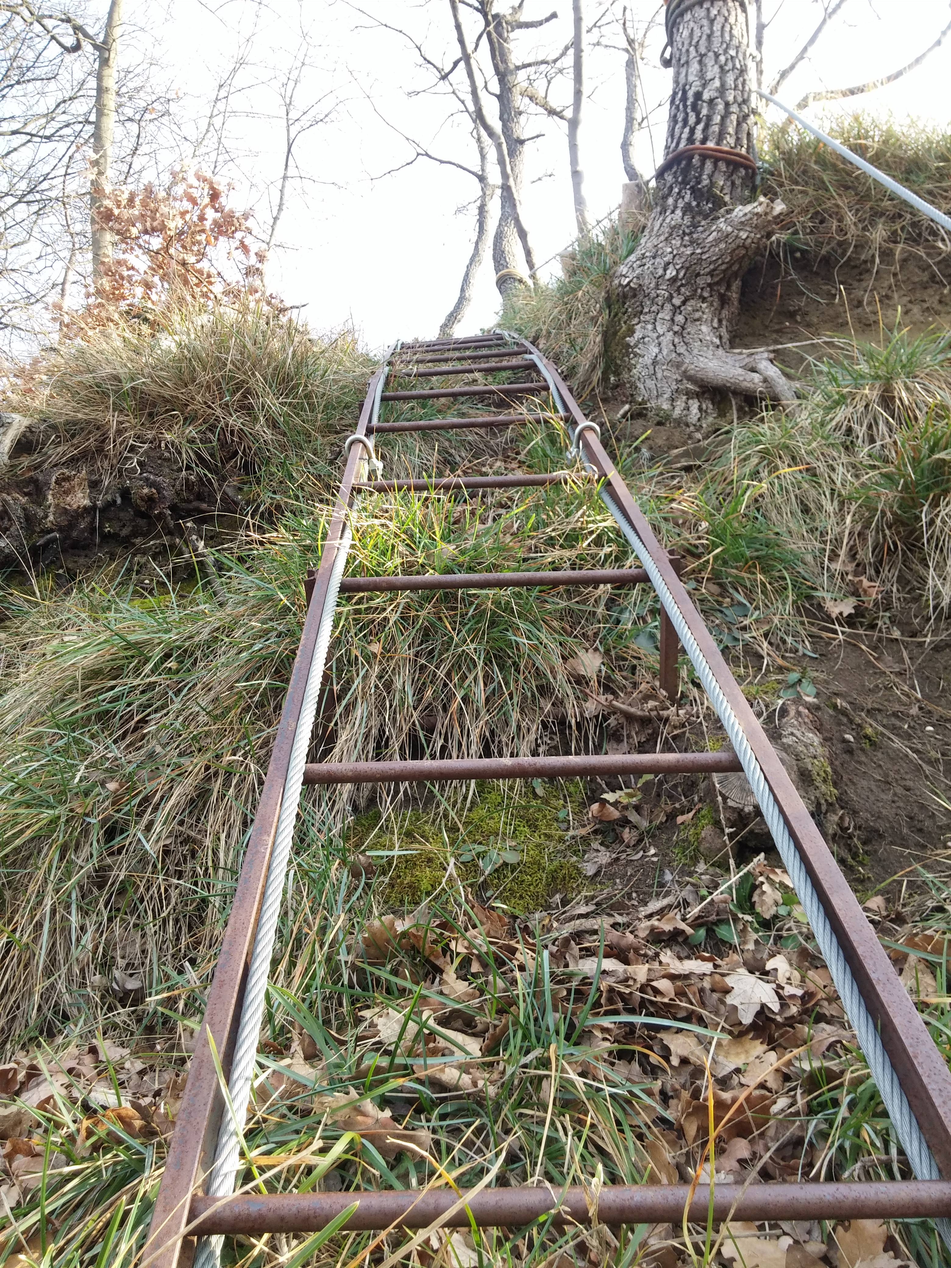 ultima scala